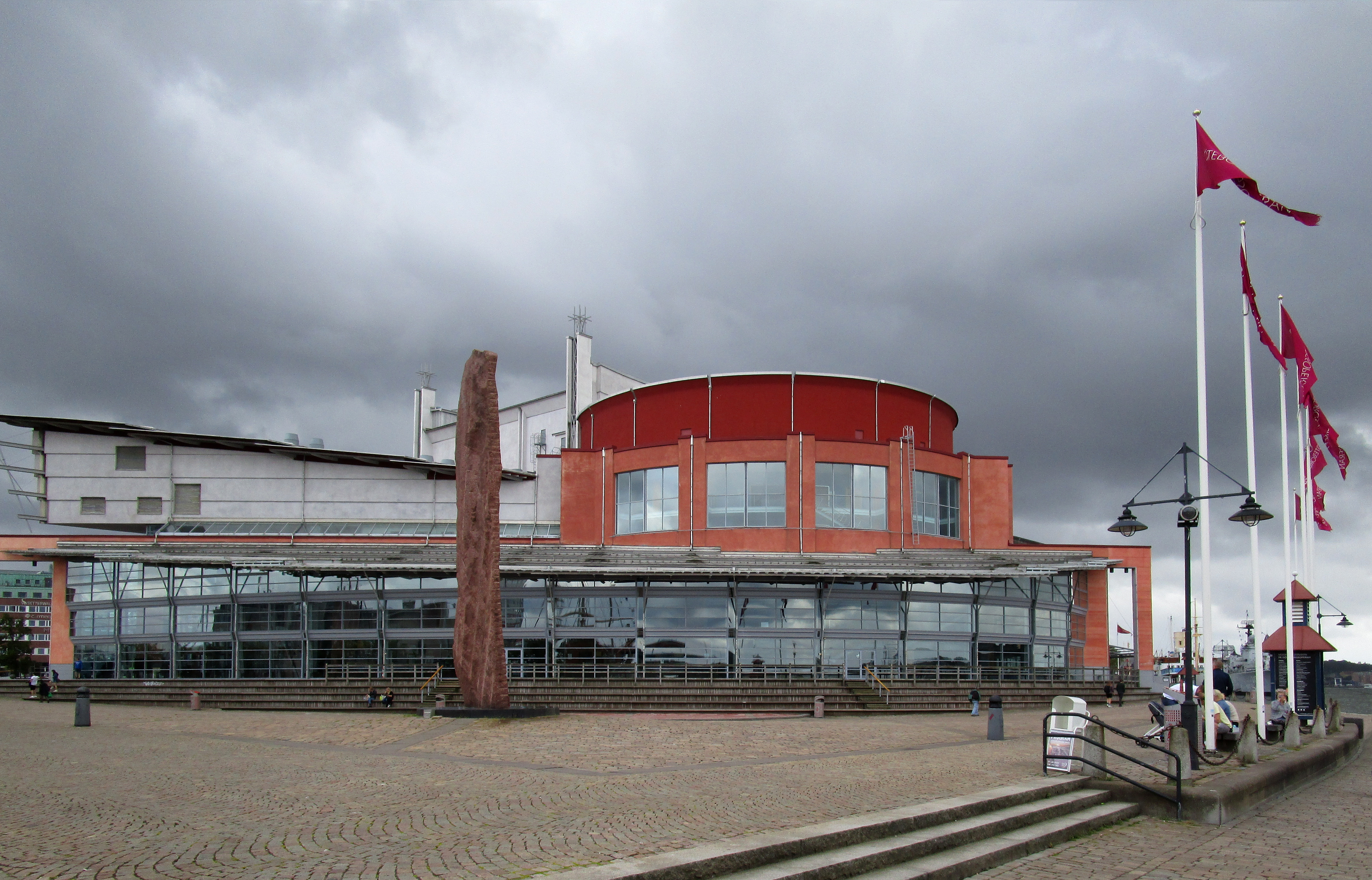 The North facade of the Göteborg Opera house, facing Göta Älv